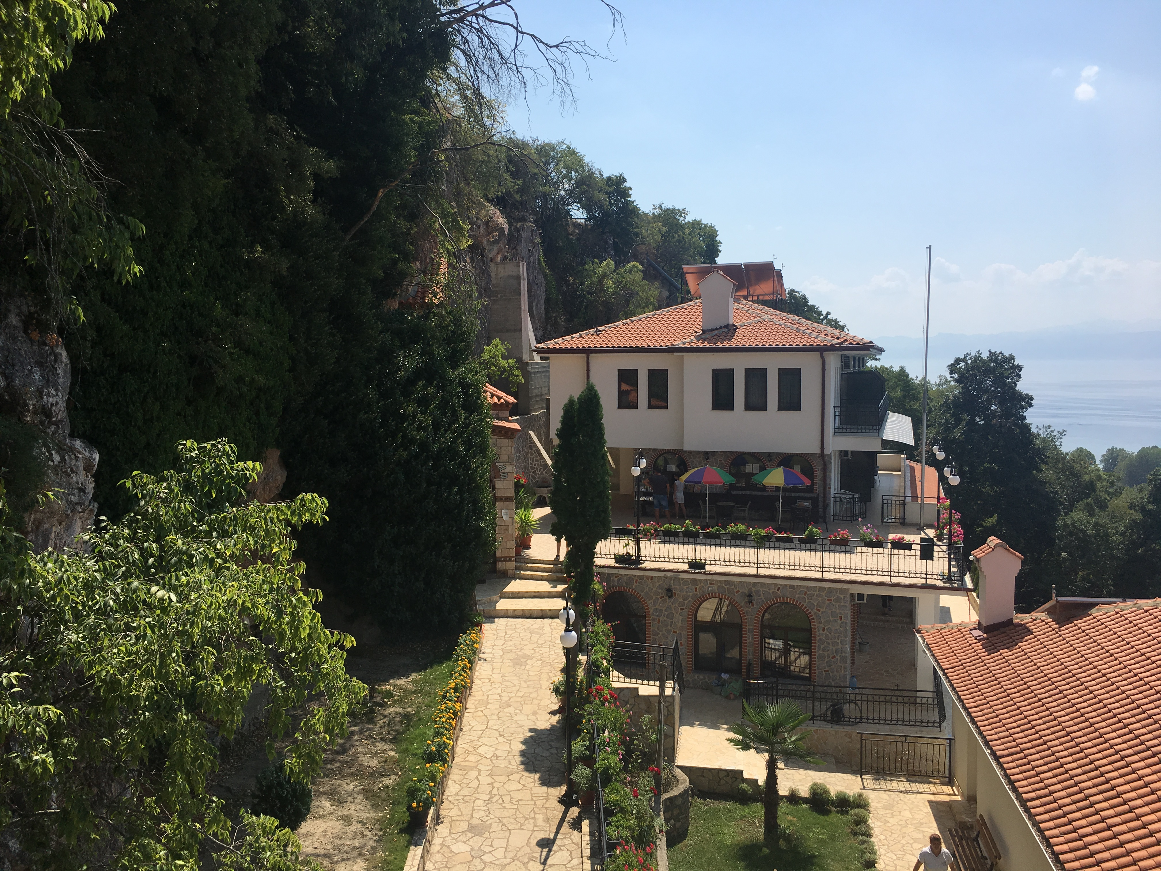 Šipokno Monastery